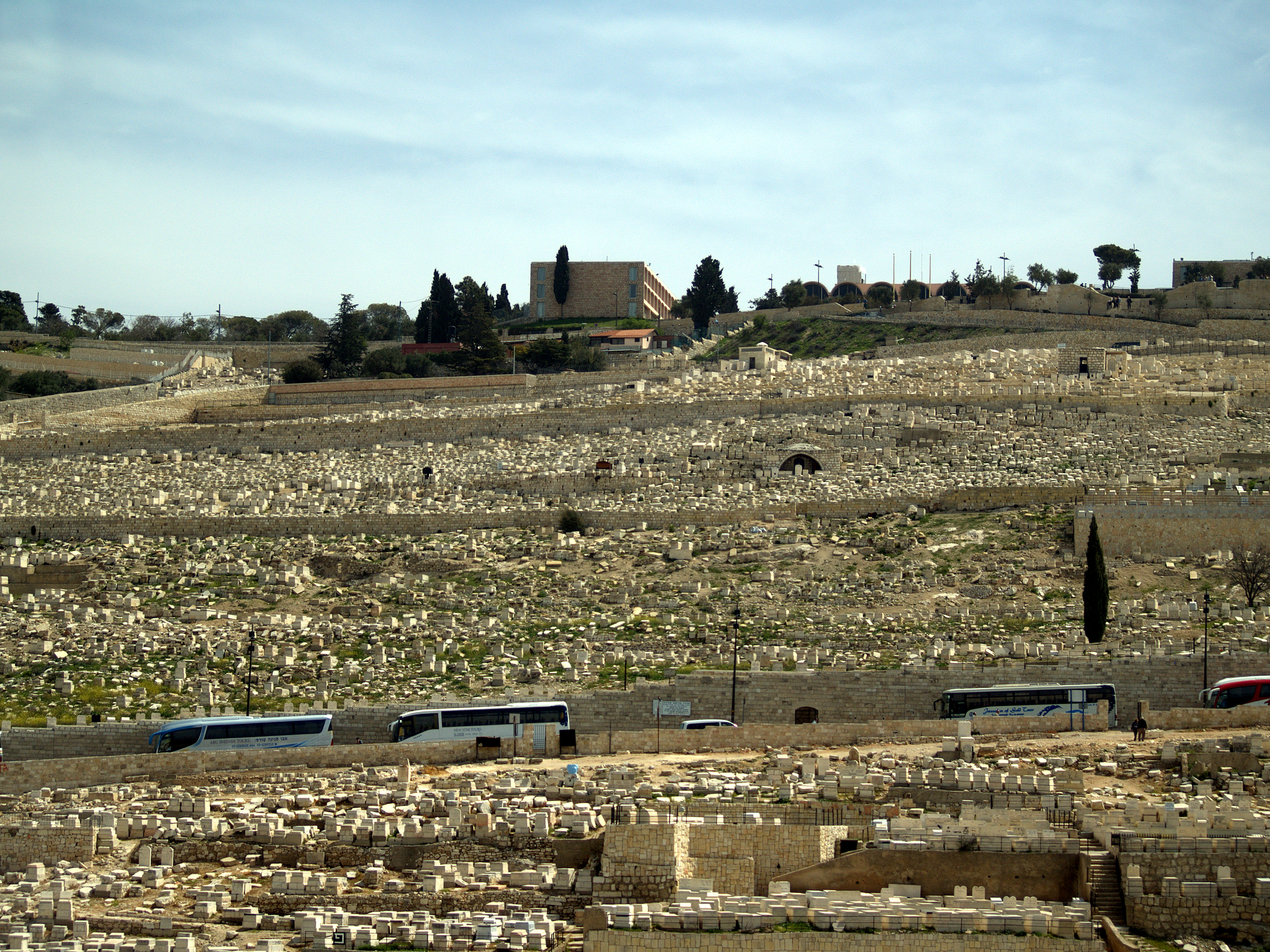 The graves on the Mount of Olives in Jerusalem.